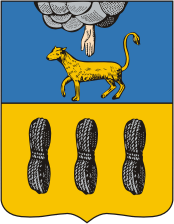 Novorzhev (Pskov oblast), coat of arms (1781)